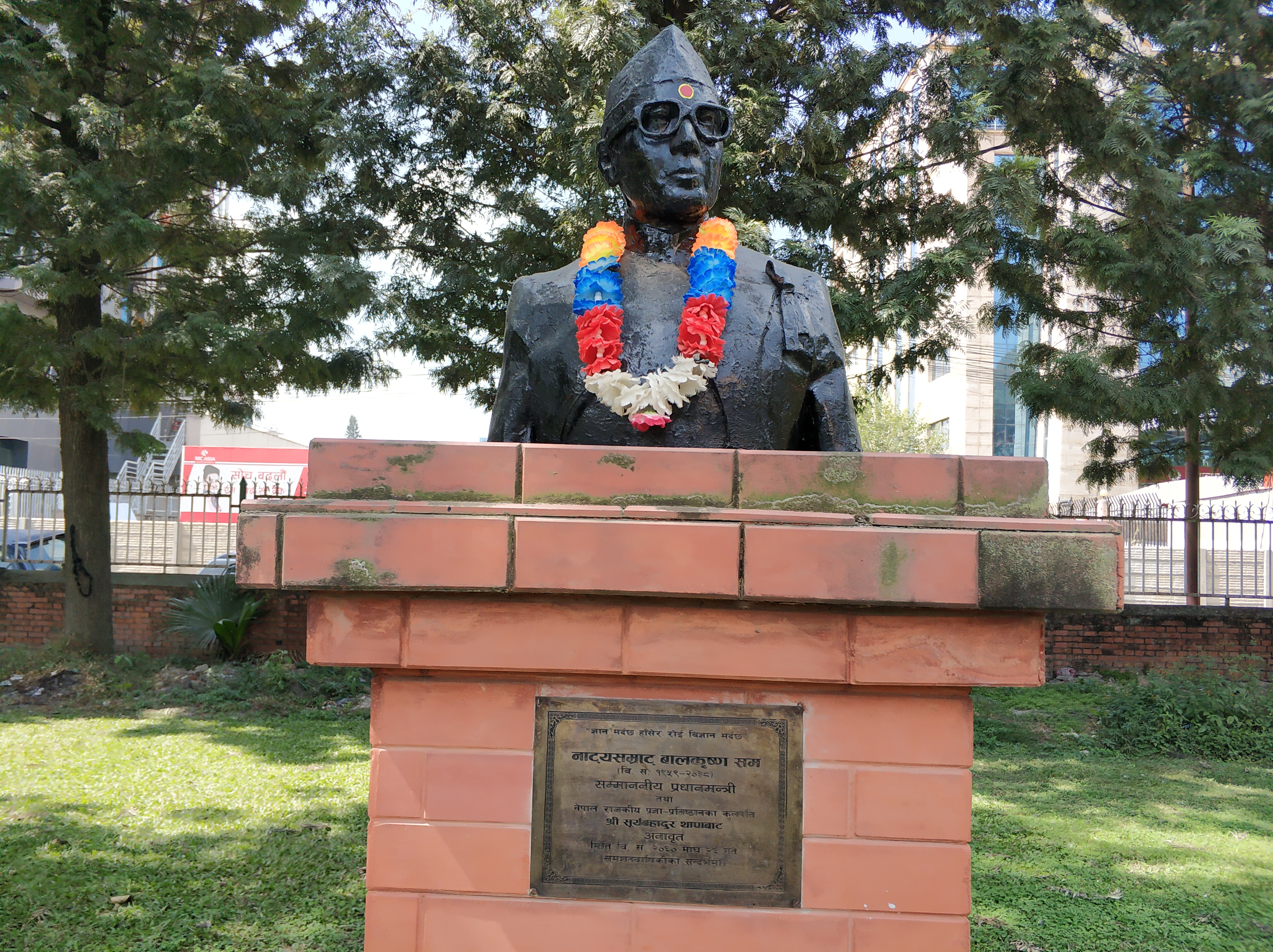 Balkrishna Sama was a Nepalese dramatist. He is also regarded as the "Shakespeare" of Nepal. In Nepali language, he is known as “Natya Siromani”. His statue at Nepal Academy Kamaladi, Kathmandu.